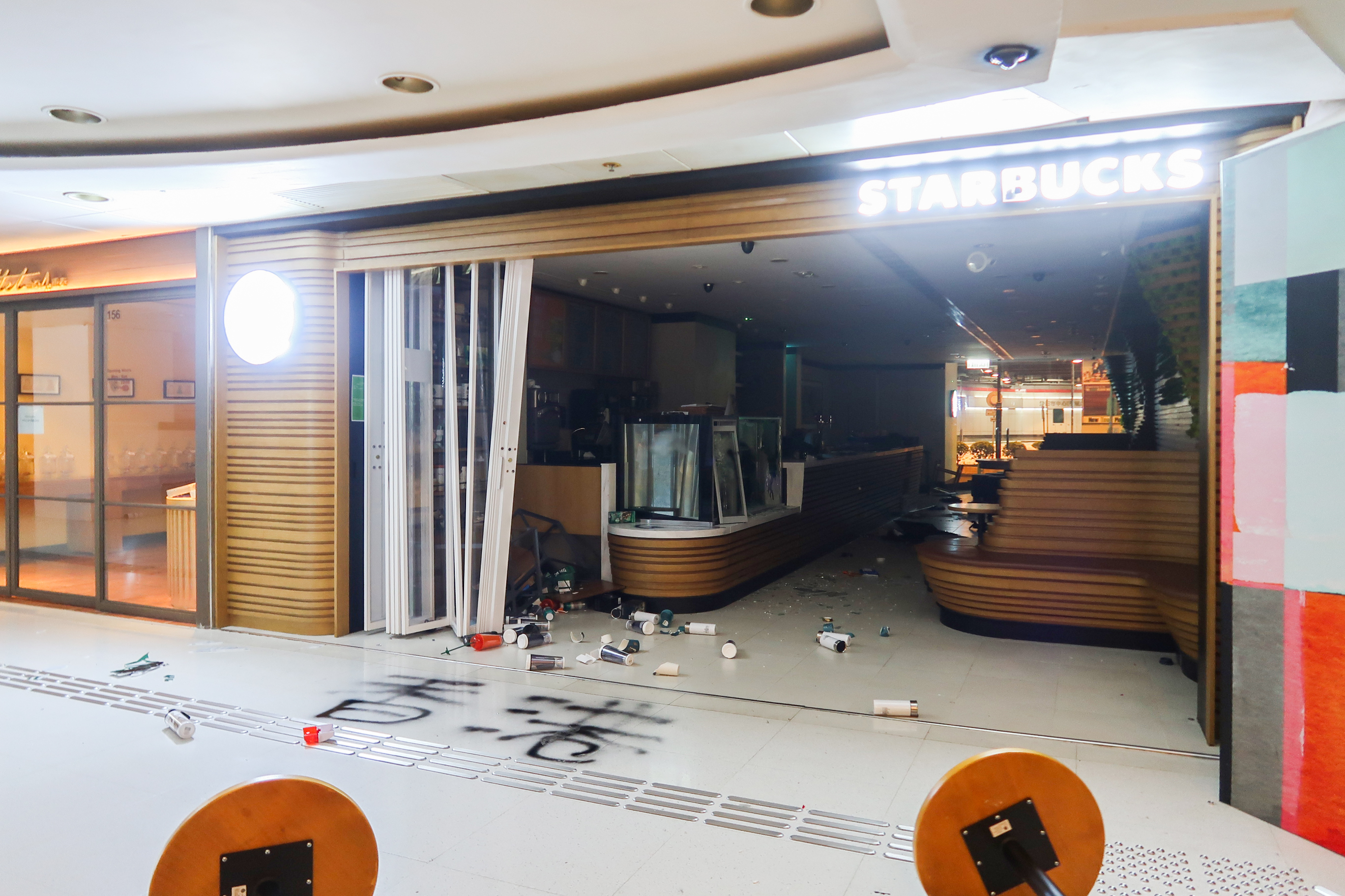 New Town Plaza Starbucks damage